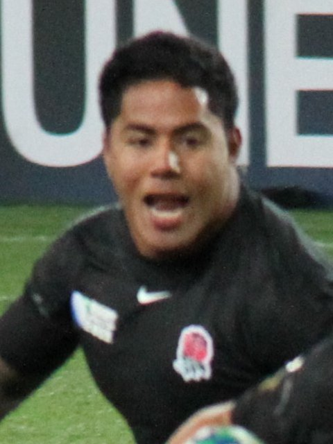 Samoan born English rugby union player Manu Tuilagi during 2011 Rugby World Cup match against Argentina